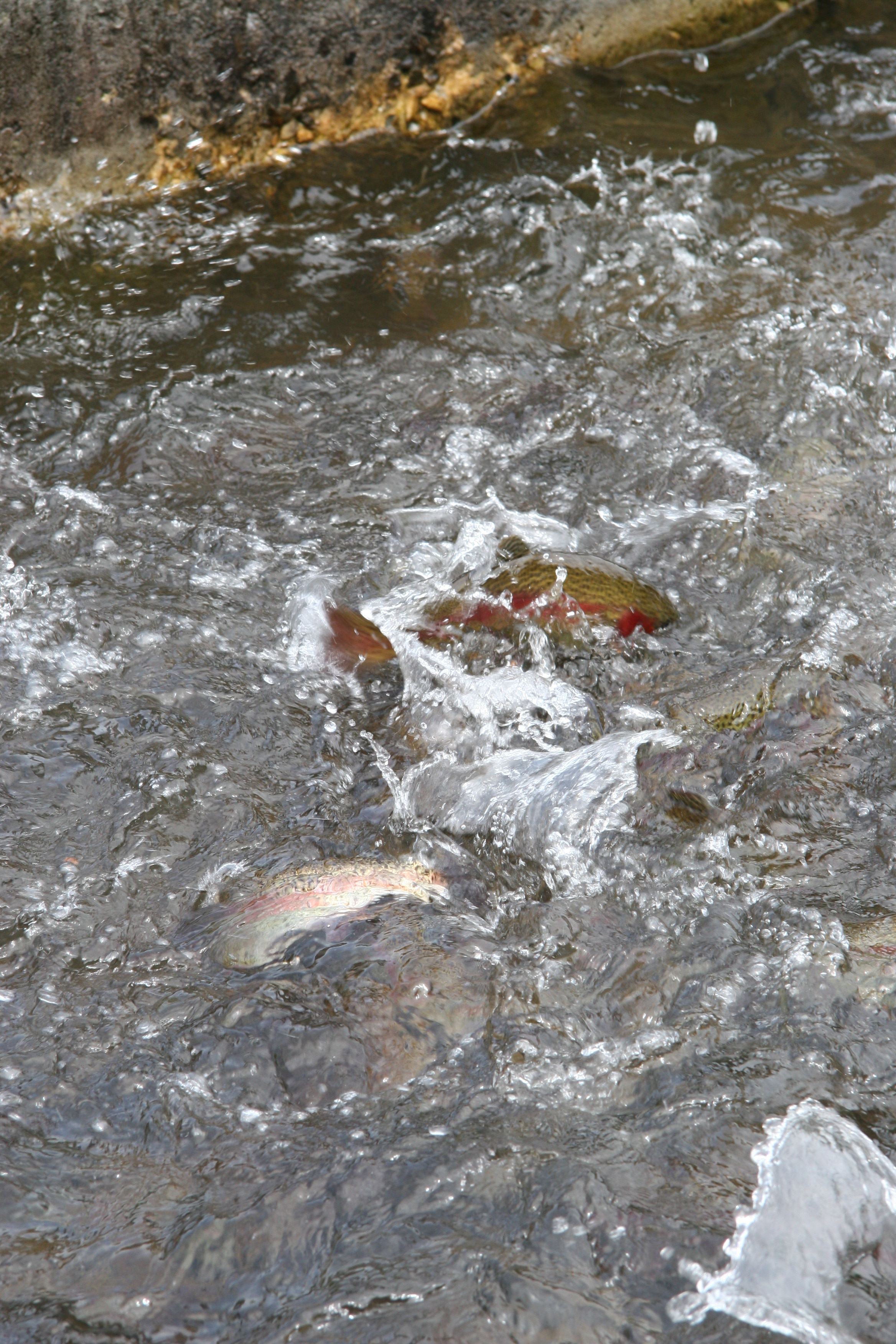 Rainbow trout (Oncorhynchus mykiss) at Chattahoochee Forest National fish Hatchery in Suches, Georgia. Public domain Photo by USFWS